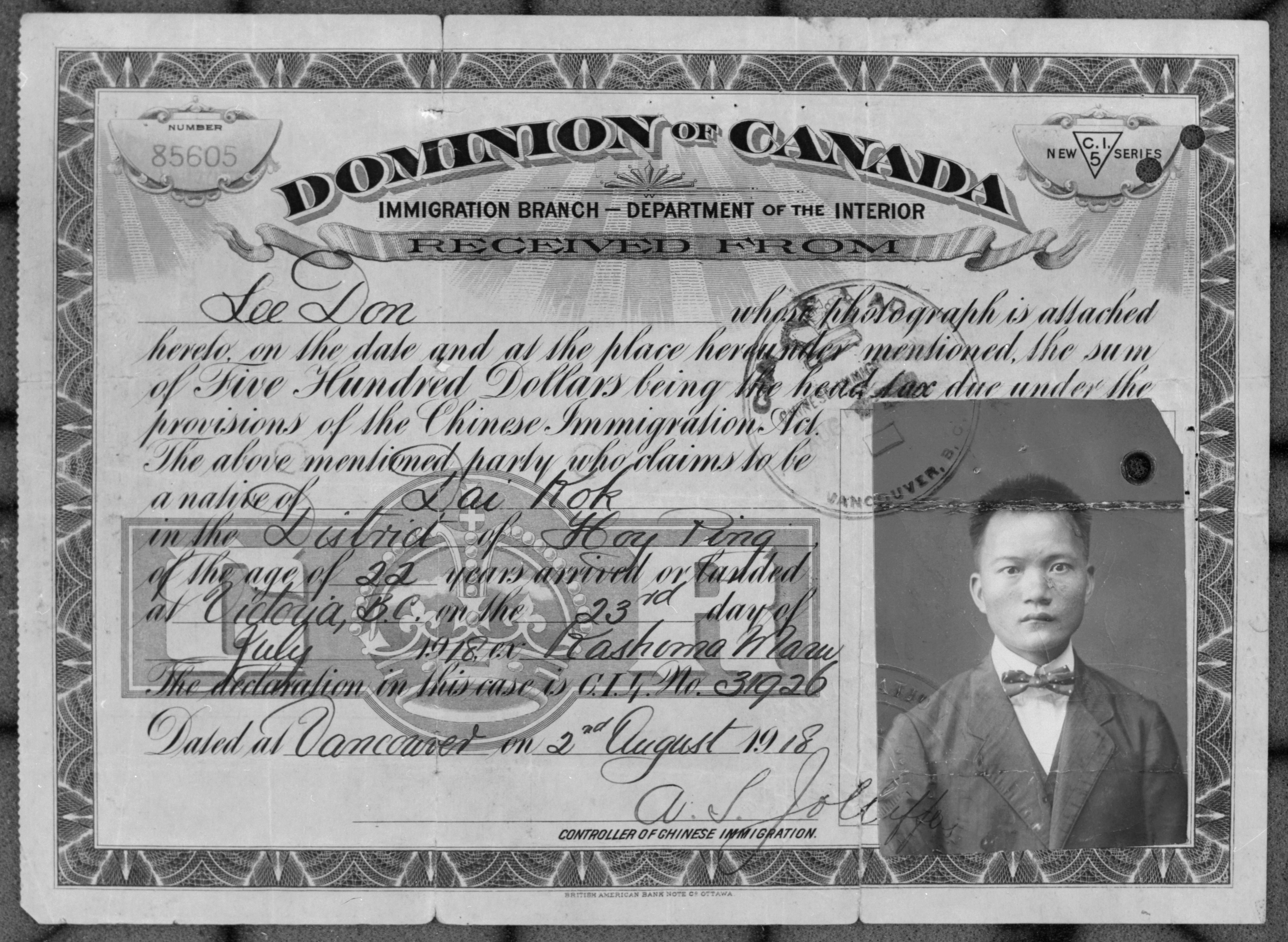 DESCRIPTION: Certificate for Don Lee - Chinese Immigration Act - front. Date on the certificate is August 2, 1918. '...the sum of five hundred dollars being the head tax due under the provisions of the Chinese Immigration Act'. Vancouver B.C. VPL Accession Number: 30625 Date: Date of photograph not available Photographer/Studio: Unknown SUBJECTS: Chinese Canadians, Immigrants, Poll tax Organization: Citizenship and Immigration Canada More information on our historical photograph collection